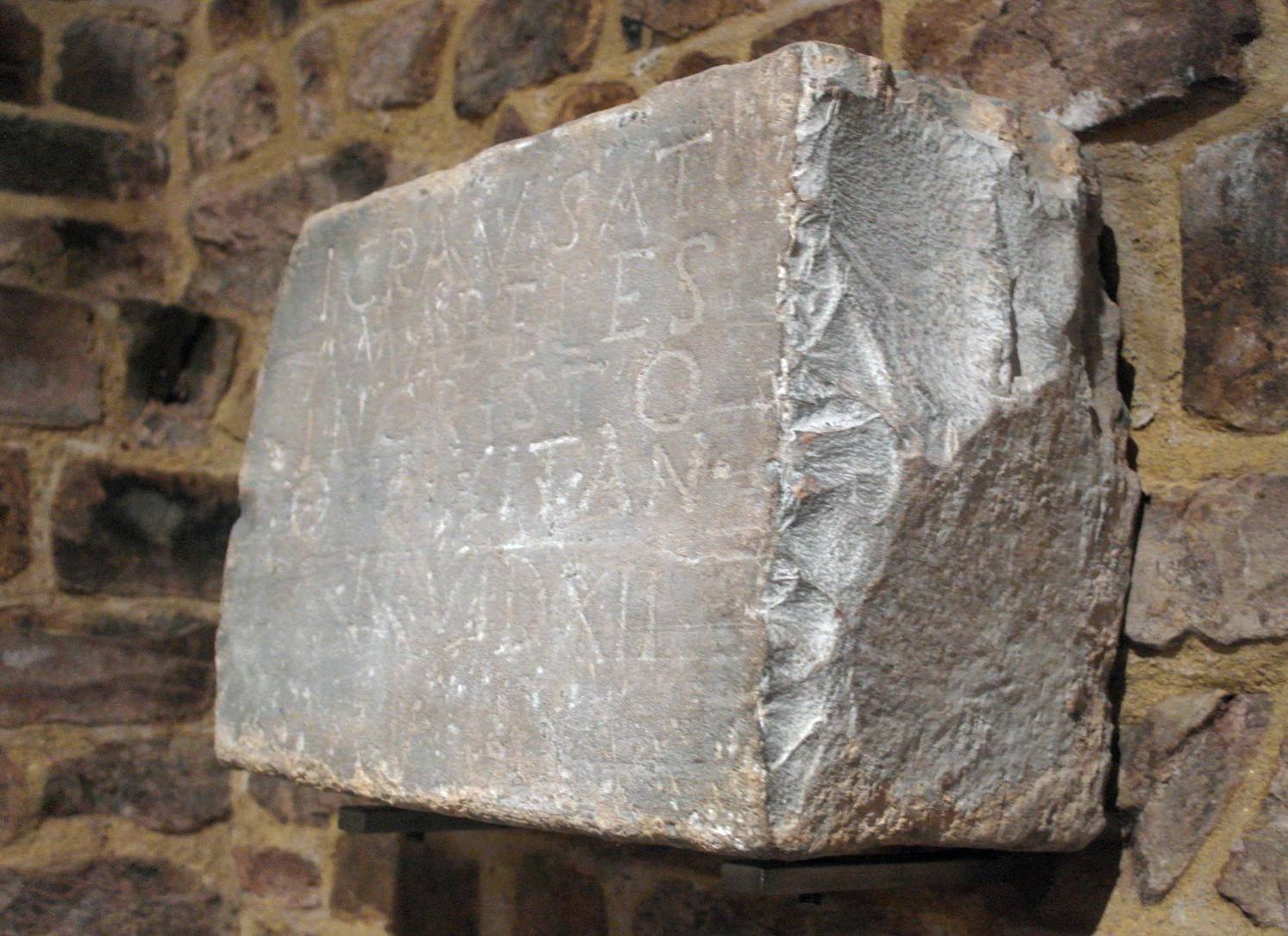 Early Christian grave stone from the 5th century in the lapidarium ("stone collection") in the East Crypt of the Basilica of Saint Servatius in Maastricht, the Netherlands. This one is of Amabeles, who according to the Latin inscription lived 4 years, 6 month and 12 days, and now rests in Christ. The stone was found in 1901 in the Westwork of the church.